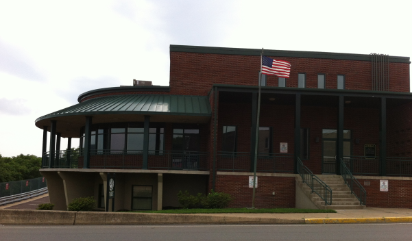 The Eagles Building, on the shore of the Susquehanna in Berwick, PA. The building was originally build by the Eagles club, but is now used for other purposes.